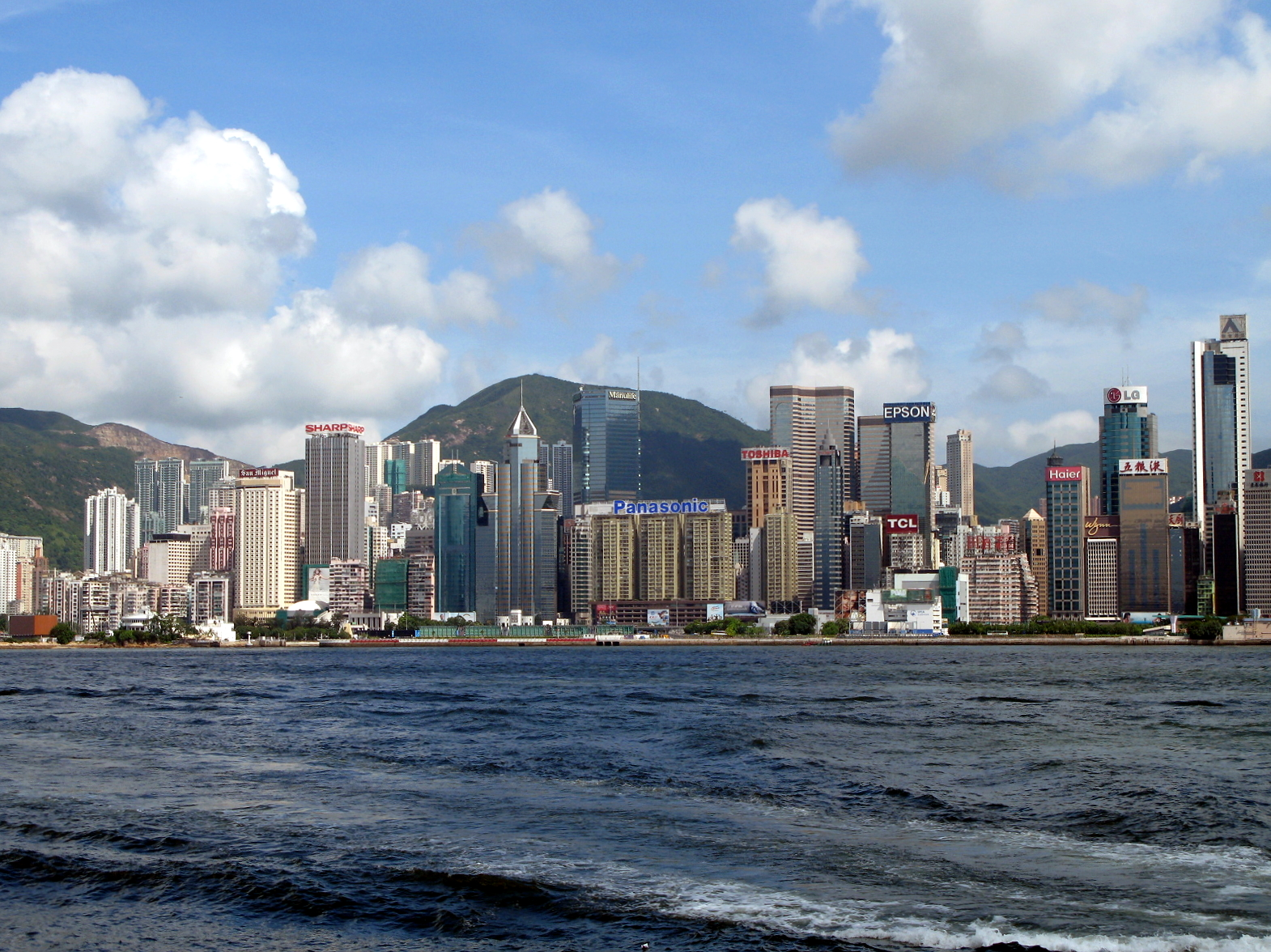 HK Causeway View in 2007